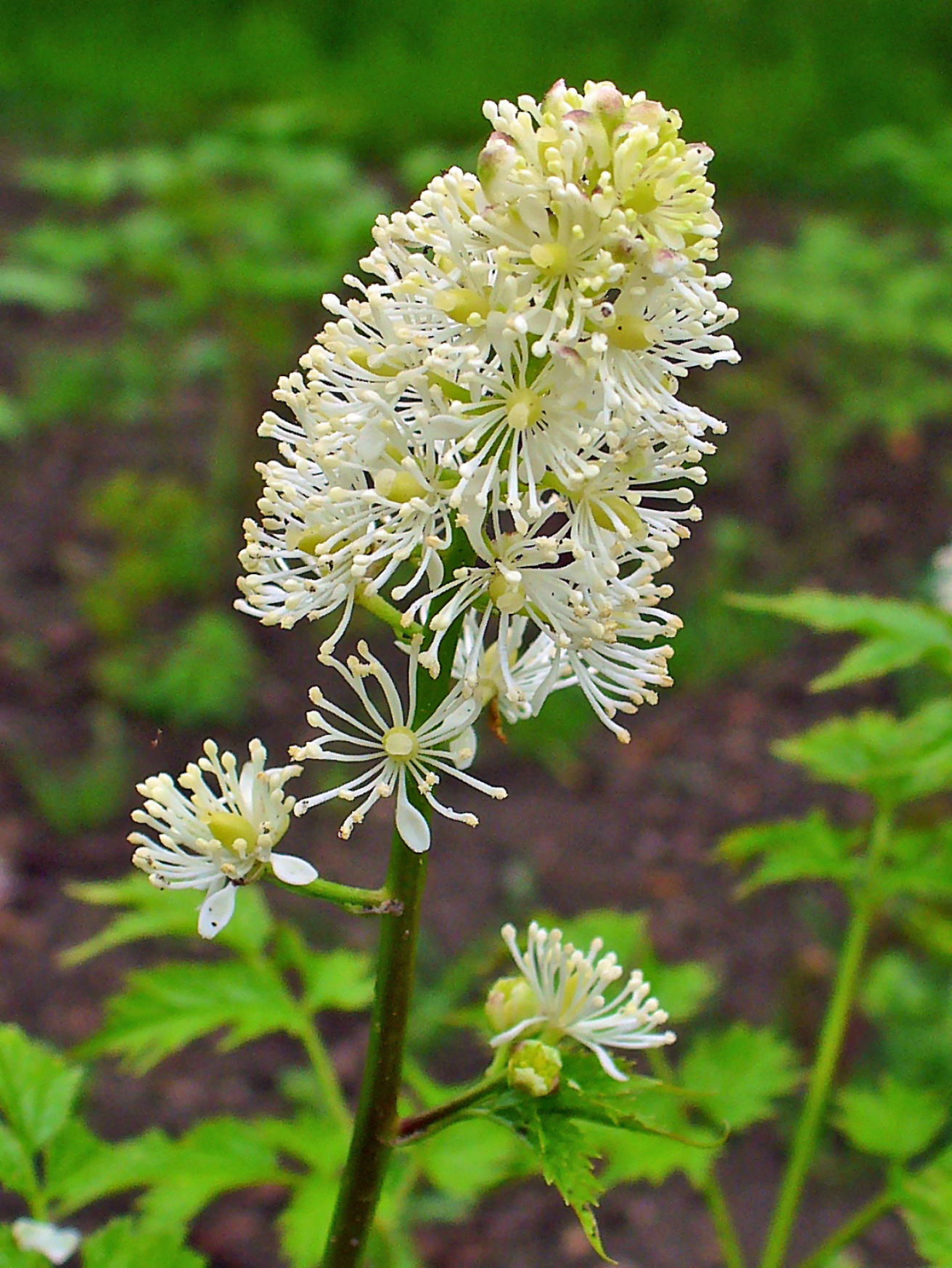 Baneberry, Eurasian Baneberry, Herb Christopher, inflorescence; Stutensee, Germany